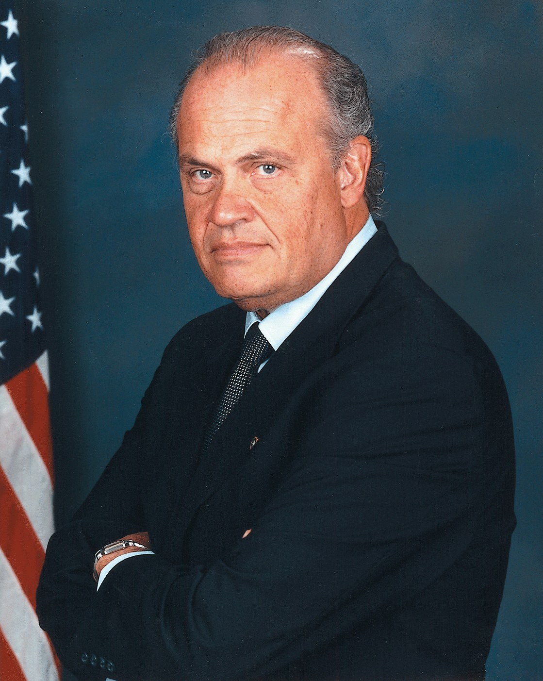 Fred Thompson, former U.S. Senator, actor, and candidate for President.